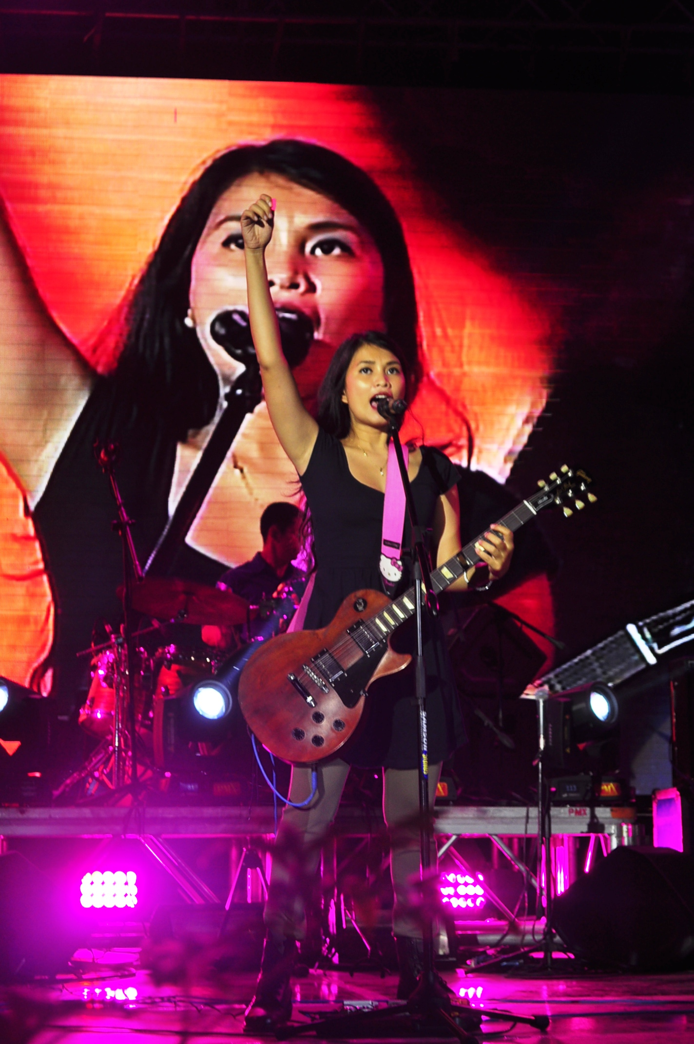 Philippine band Moonstar88, performing at Earth Day Jam 2013.